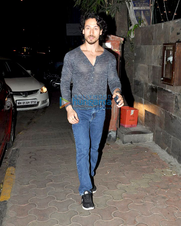 Shroff in Bandra